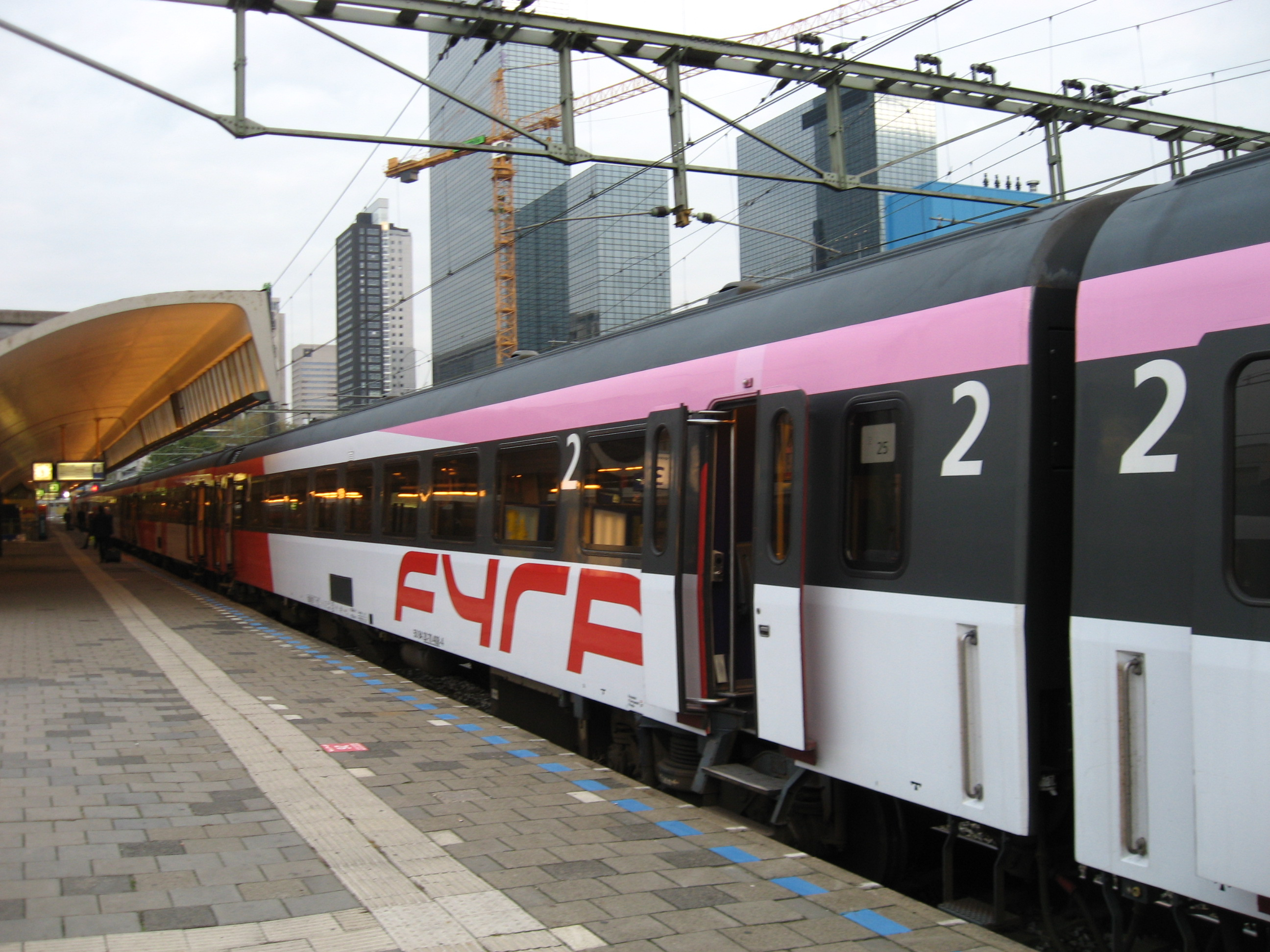 Temporary Fyra service with classic train. Maximum speed 160 km/u on the high Speedline